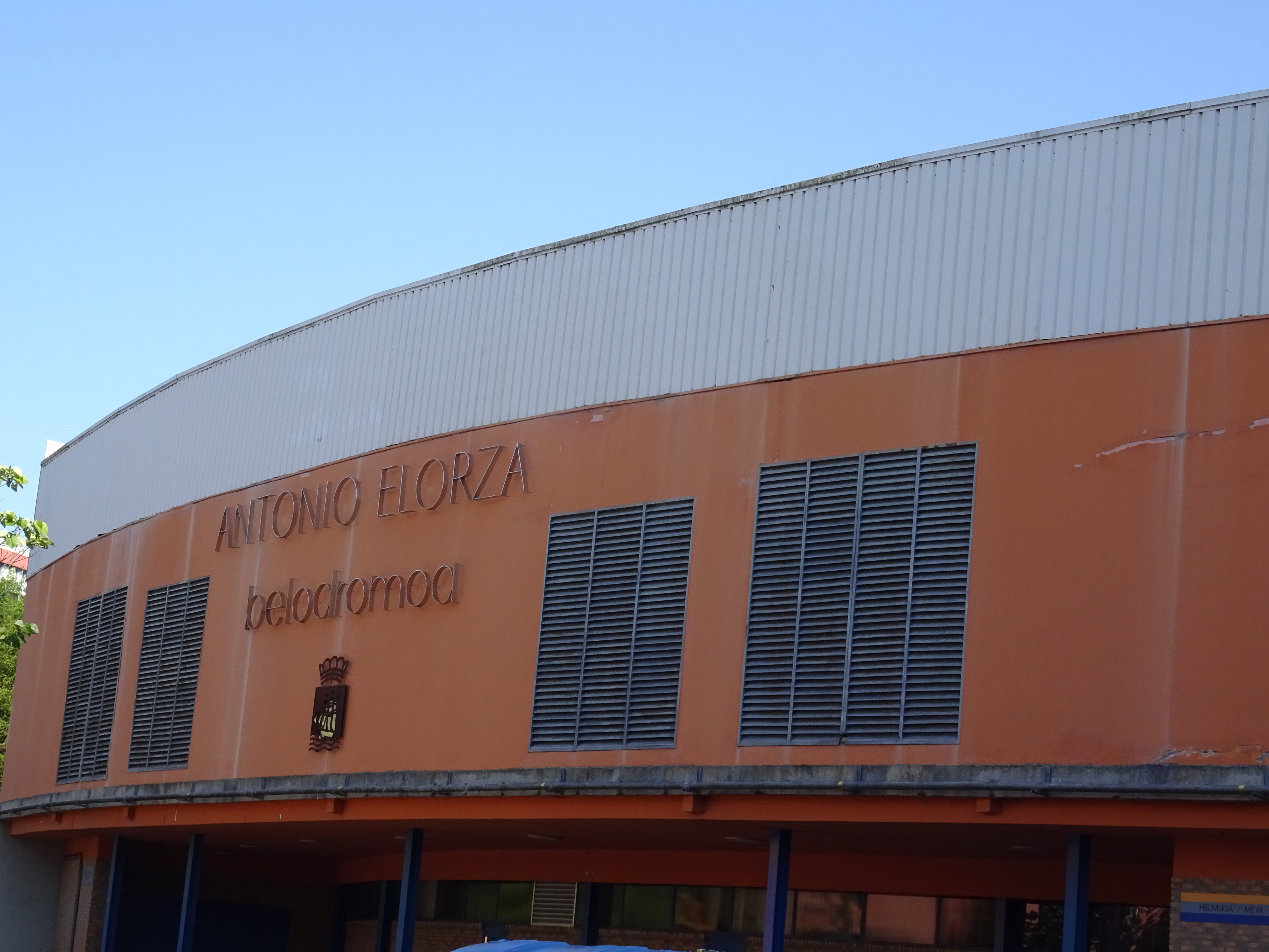 Colección Amarauna Bilduma. -- Iturria / Fuente: Gorka Muñoz. -- Informazio gehiago Amarako Ernest Lluch Kultur Etxeko Liburutegia / Más información: Biblioteca del Centro Cultural Ernest Lluch de Amara (Donostia-San Sebastián.-- R. zkia.1017